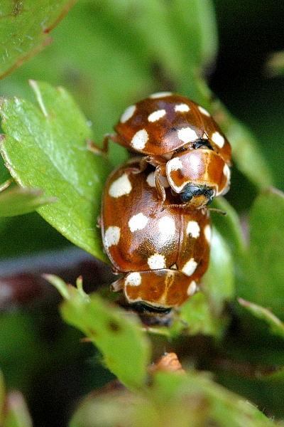 Picture taken in Commanster, Belgian High Ardennes . Species: Calvia 14-guttata couple